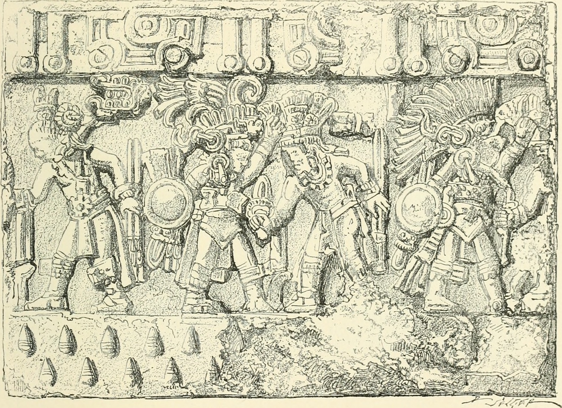 Title: The ancient cities of the New World : being travels and explorations in Mexico and Central America from 1857-1882 Year: 1887 (1880s) Authors: Charnay, Désiré, 1828-1915 Subjects: Indians of Mexico Indians of Central America Publisher: London : Chapman and Hall Text Appearing Before Image: DOOR-rOSTS OF HALL IN THE TENNIS-COURT OFCIUCIIEN-ITZA. Sahagun, Hist, de las Cosas de la Nueva l-spaiia, lib. 11. cap. xxxvii. Chiciien-Itza. 365 stone. These warriors are distributed in groups of two, theconqueror to the left, the vanquished to the right; the latterin the act of presenting the sacred knife he holds in his hand,as a sign of submission. Some of the warriors, instead of theknife, have a two-handed sword, macana furnished withblades of obsidian of Toltec manufacture; a few have theirnoses pierced, and wear a golden ball, or the obsidian bezotd, Text Appearing After Image: Tl/.OC S STONE, IN MEXICO. on their under-lip, as a badge of knighthood, which they hadadopted from the Nahuas of the Uplands. Further, eachfigure, whether in the Mexican or Maya bas-relief, wears akind of casque, fashioned in the shape of a crocodile, a bird,a serpent, or a ducks head, etc., with his name on it. Slightdifferences of style may occur here and there ; for thesemonuments belong to remote epochs, while Tizocs stoneonly dates back to 1485 ; but the fact that they are found at i66 The Ancient Cities of the New World. a distance of more than 900 miles from each other does notmake their resemblance less marvellous. We will end our comparisons with a description of the follow-ing statues, which ought to convert the most obstinate to ourtheory. One was discovered at Chichen-Itza five or six yearsago, by Leplongeon, an American explorer; the other in theneighbourhood of Tlascala, close to Mexico, at a considerabledistance from the former. The two statues represent the Toltec KAL